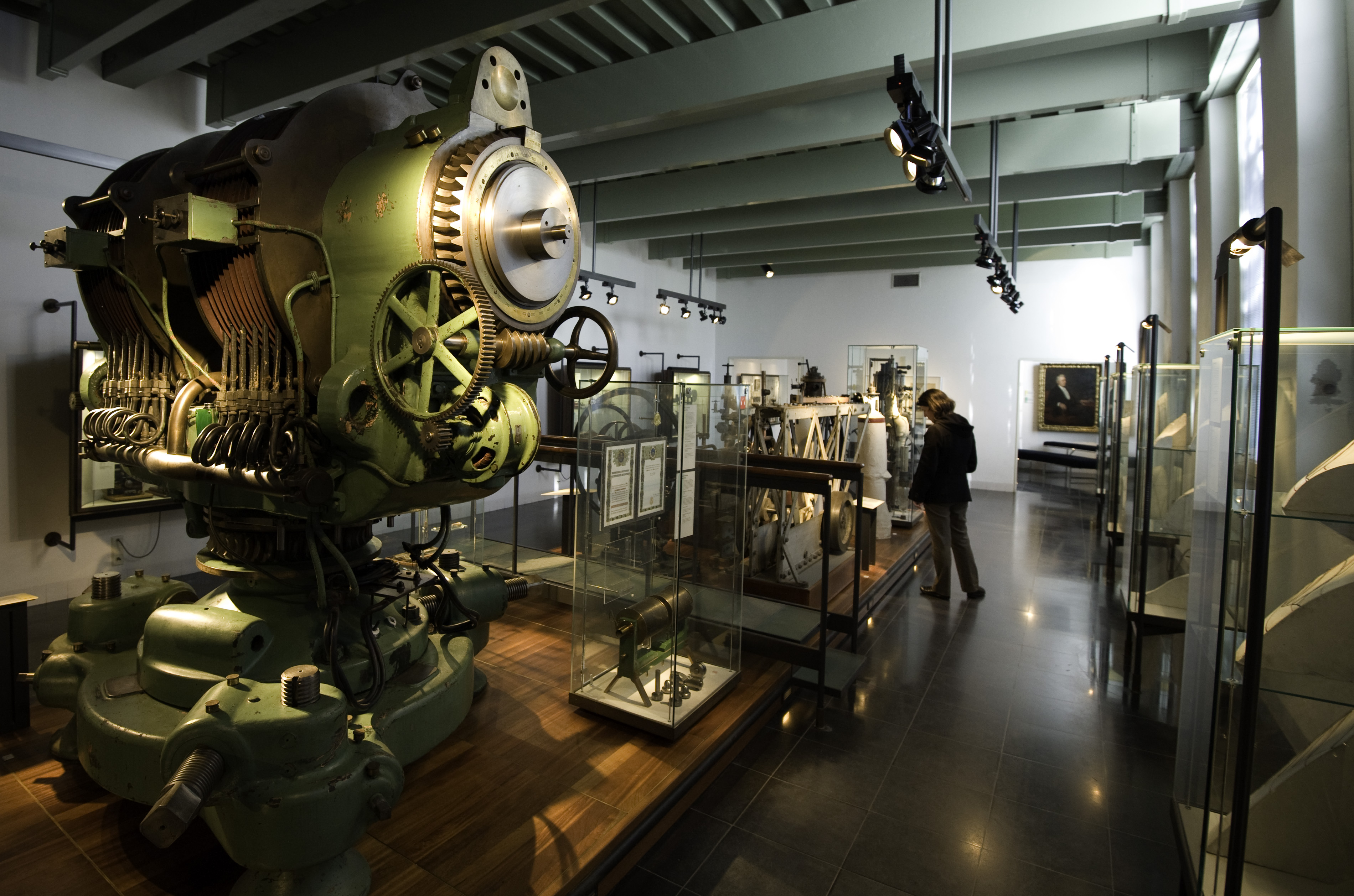 Museum Boerhaave walk-through